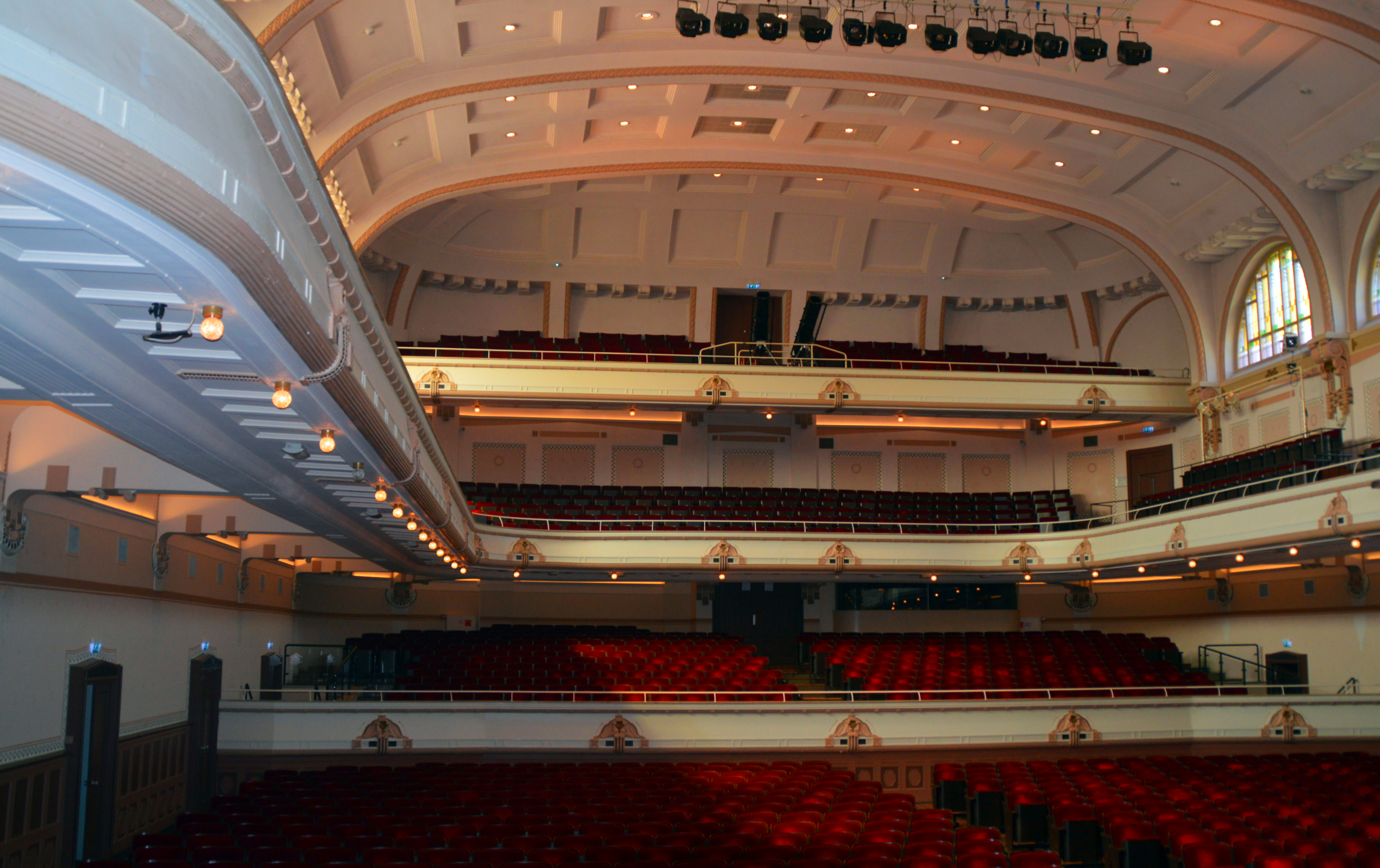 Concertgebouw de Vereeniging Nijmegen Great Hall Stage view